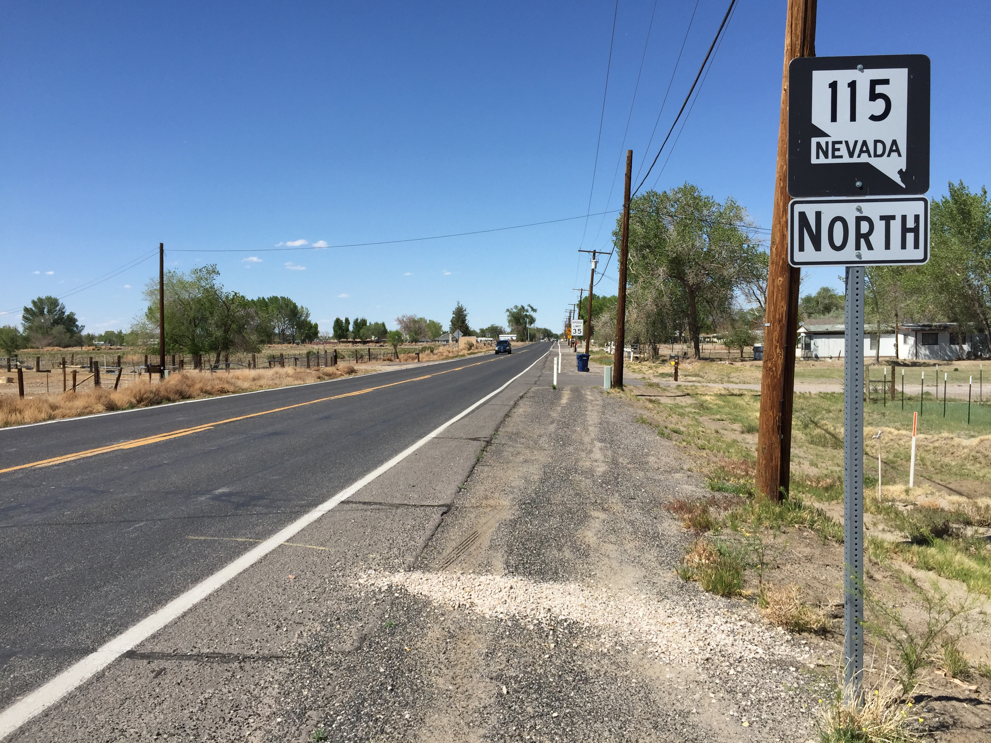 View north along Nevada State Route 115 (Harrigan Road) at Nevada State Route 118 (Wildes Road) in Churchill County, Nevada